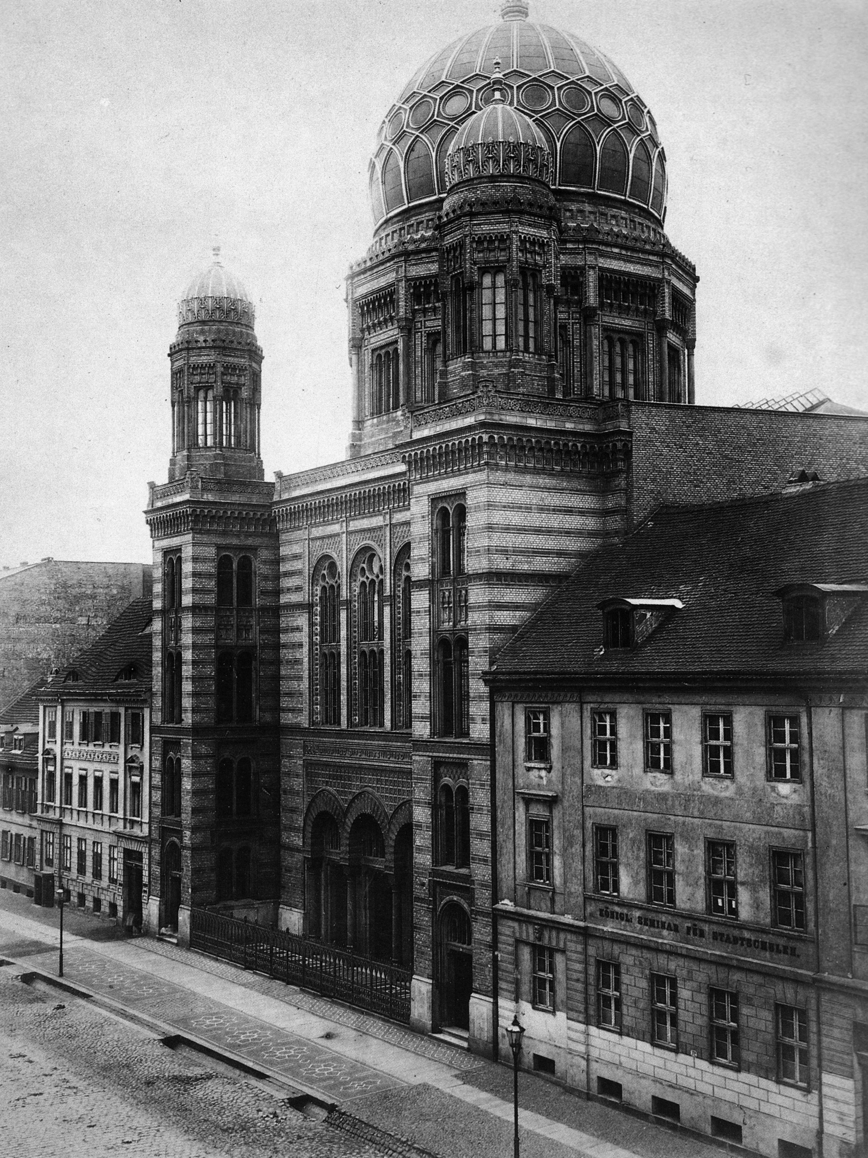 The New Synagogue in Oranienburger Straße, Spandauer Vorstadt, Berlin.